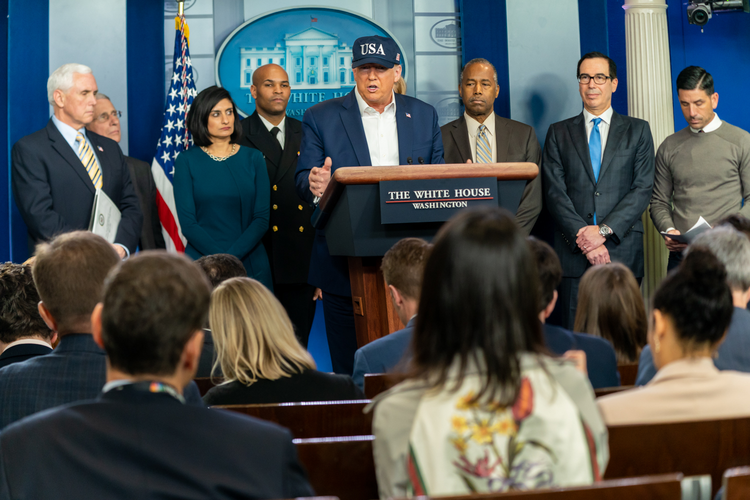 President Donald J. Trump, joined by Vice President Mike Pence and members of the White House Coronavirus Task Force, takes questions from the press at a coronavirus update briefing Saturday, March 14, 2020, in the James S. Brady Press Briefing Room of the White House. (Official White House Photo by Shealah Craighead)